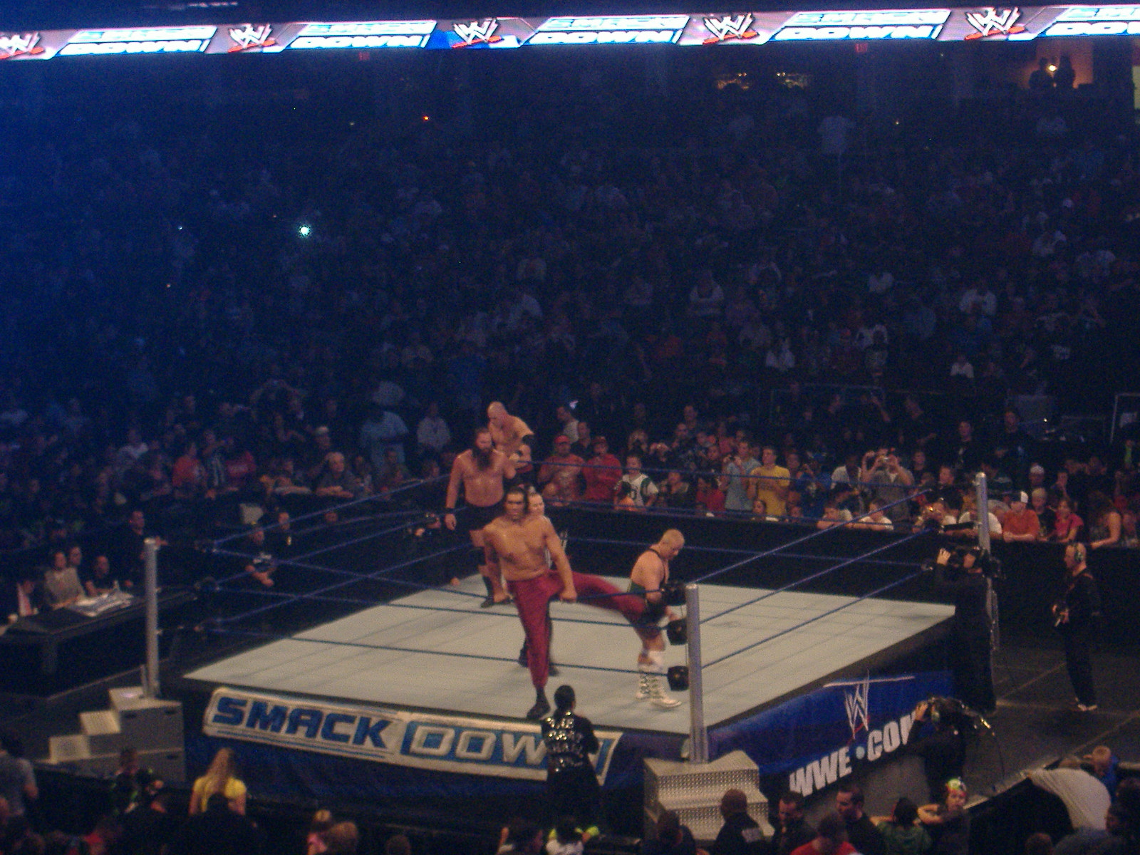 Finlay and Great Khali vs Kane and Mike Knox From September 1st, 2009 Smackdown, ECW, and Superstars